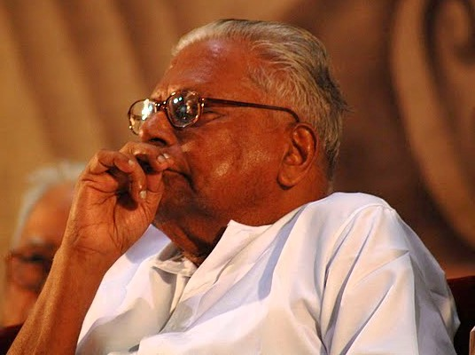 V.S.Achuthanandan sleeping a meeting